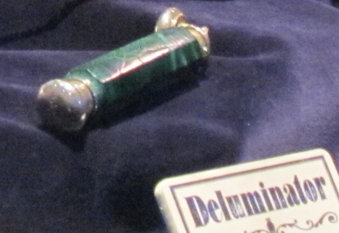 Deluminator. One of the first magical objects portrayed in "Harry Potter and the Philosopher's Stone" and especially important in "Harry Potter and the Deathly Hallows".